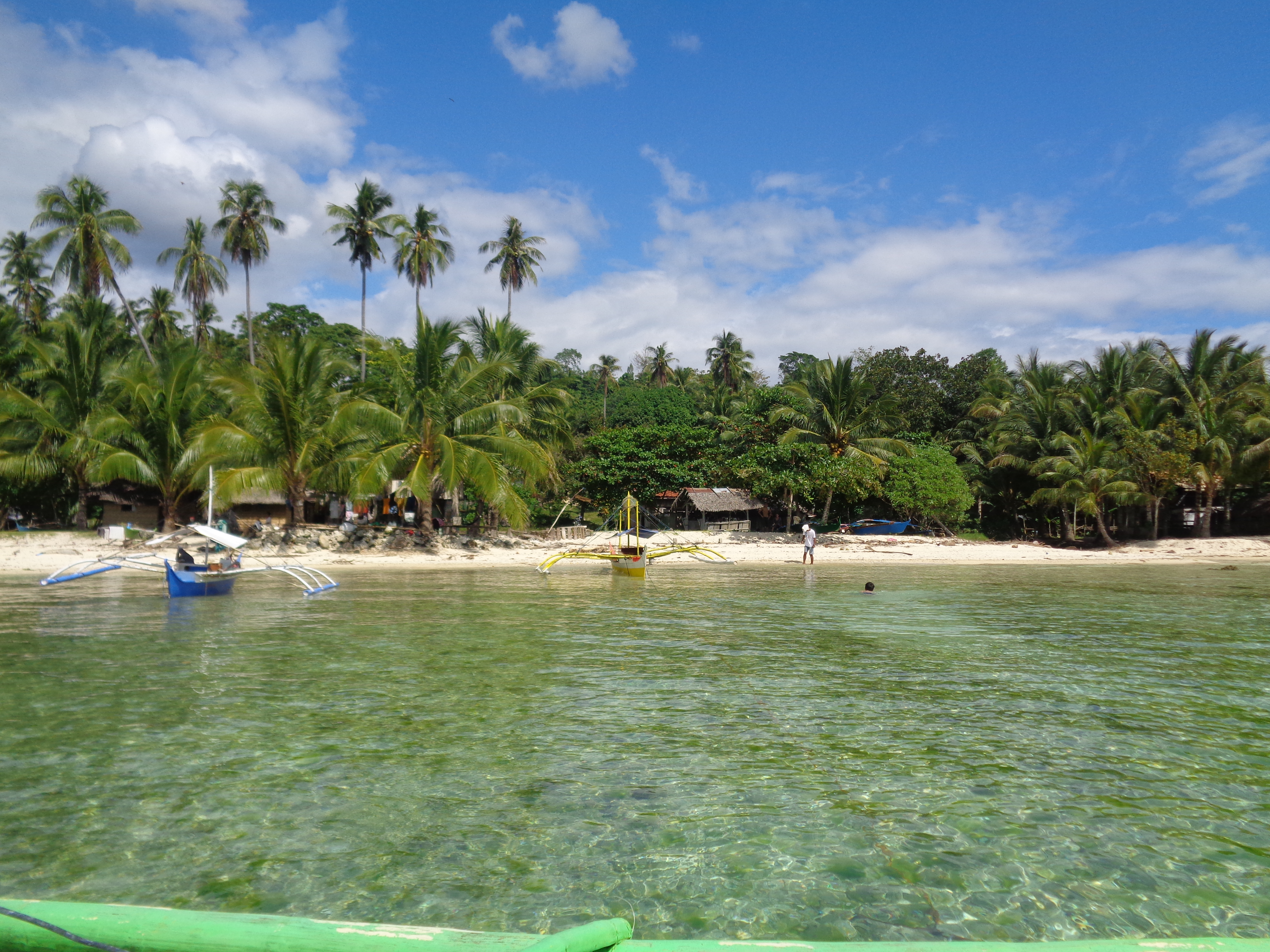 Kaputian, Island Garden City of Samal, 8120 Davao del Norte, Philippines